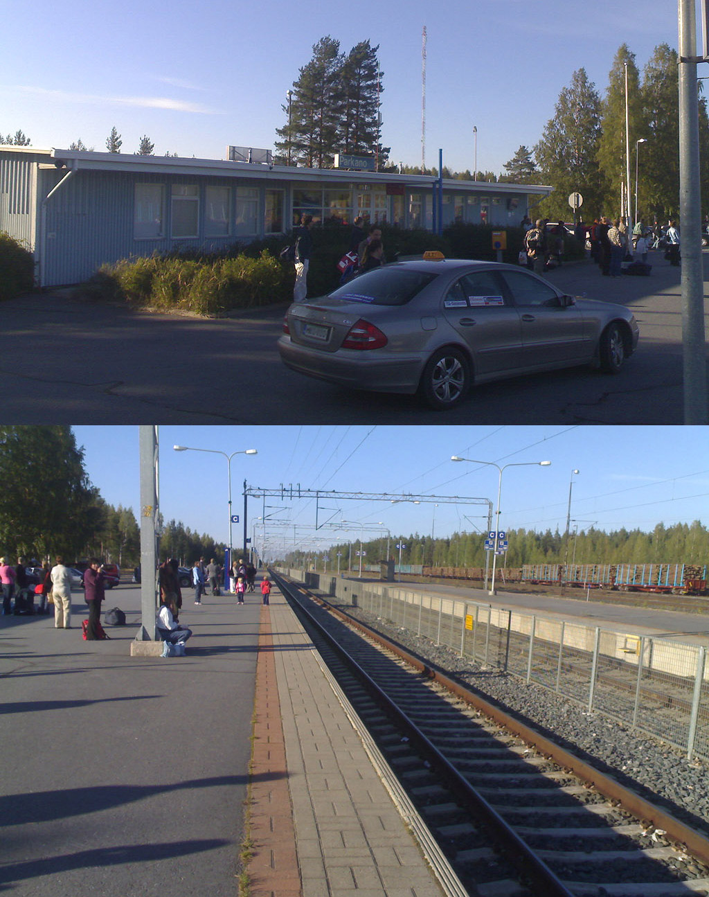 Parkano train station in 2006